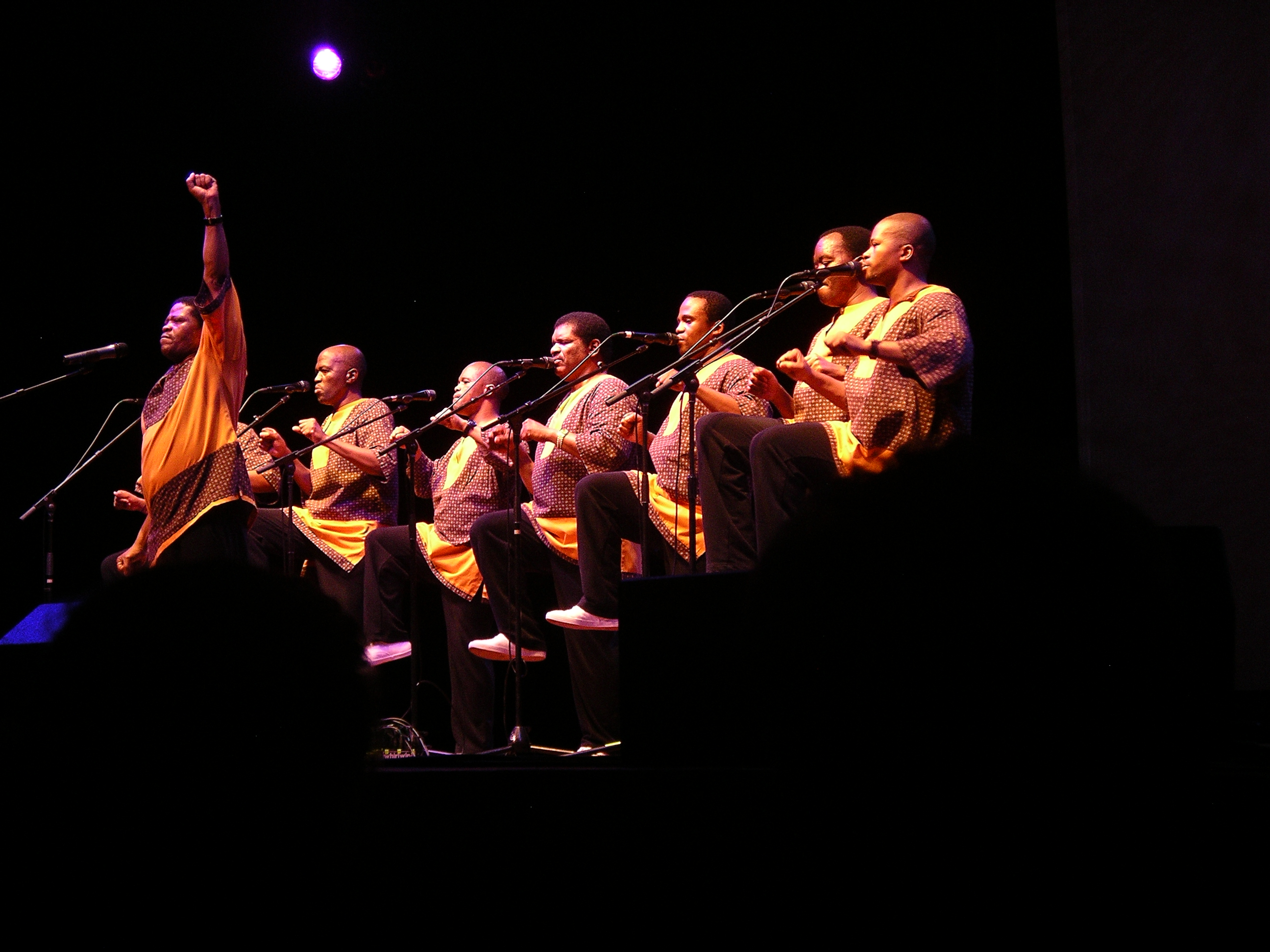 Ladysmith Black Mambazo in concert at Ravinia